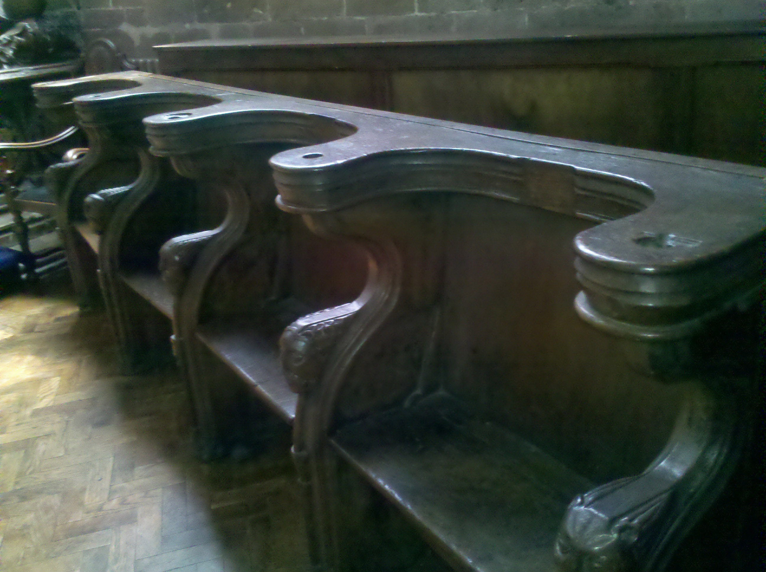 4 seat pews in St Peters Wolverhampton